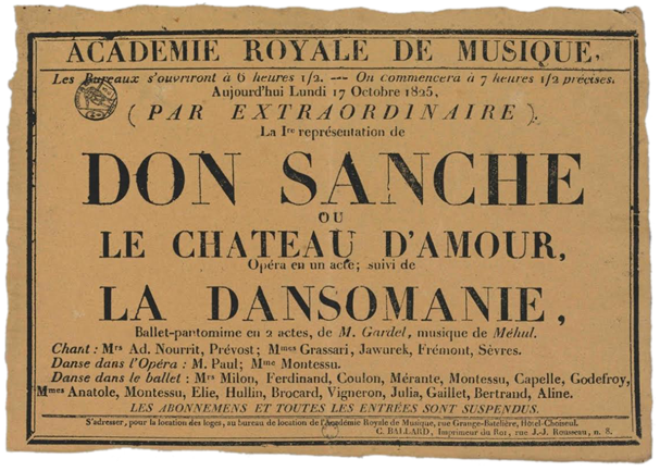 Liszt's Don Sanche invition